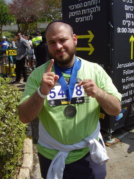 Ari Louis CEO: Israel Sports and News Radio